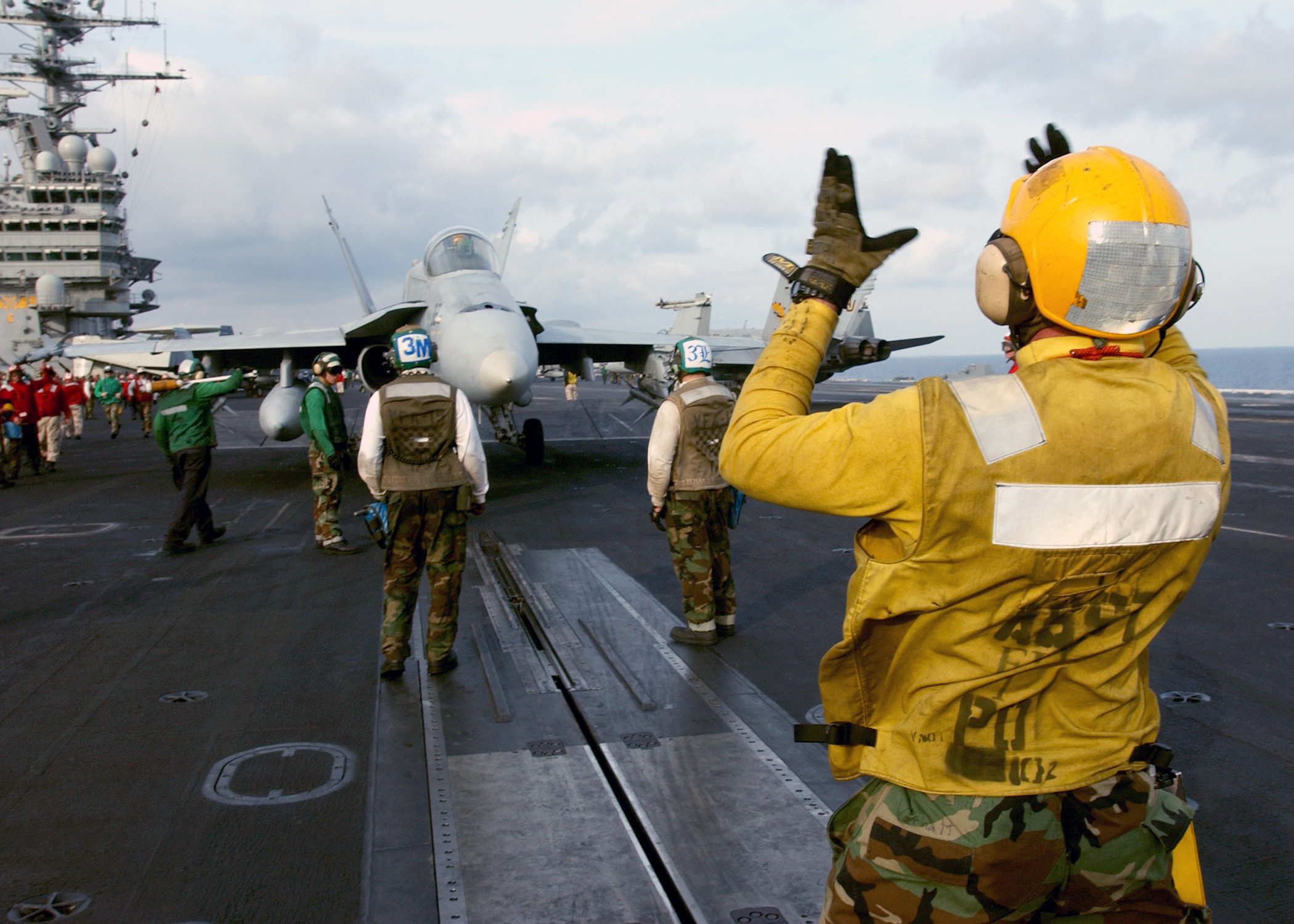 The Mediterranean Sea (Mar. 17, 2003) -- An Aviation Boatswain's Mate guides an F/A-18C Hornet from the 'Valions' of Strike Fighter Squadron Fifteen (VFA-15) into position for launch. The Valions are part of Carrier Airwing Eight (CVW-8), embarked aboard USS Theodore Roosevelt, deployed in support of Operation Enduring Freedom. U.S. Navy Photo by Photographer's Mate 2nd Class James K. McNeil. (RELEASED)